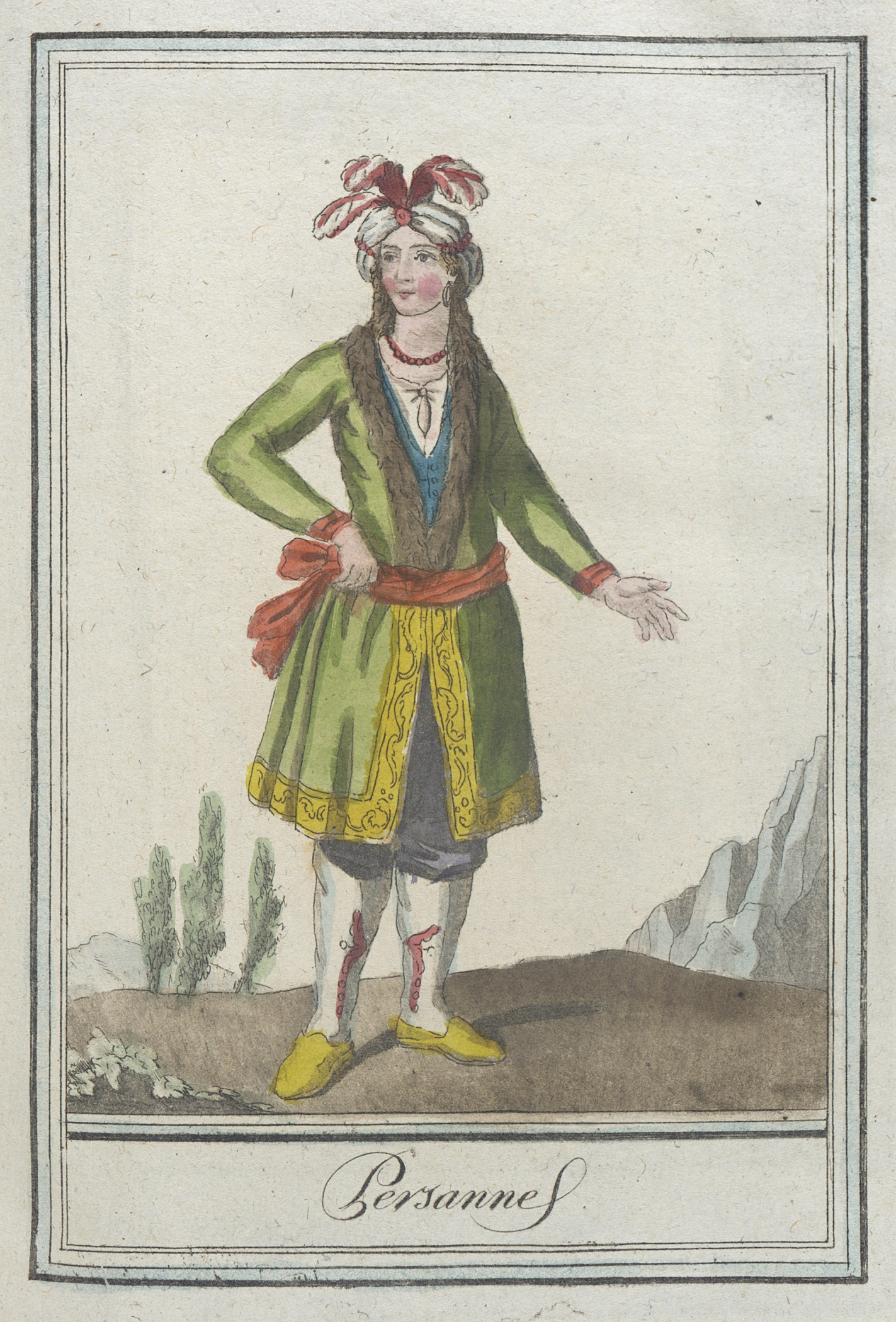 France, circa 1797 Prints; engravings Hand-tinted engraving on paper Sheet: 10 3/8 x 7 1/2 in. (26.35 x 19.05 cm); Composition: 8 1/4 x 5 7/8 in. (20.96 x 14.92 cm) Costume Council Fund (M.83.190.183) Costume and Textiles